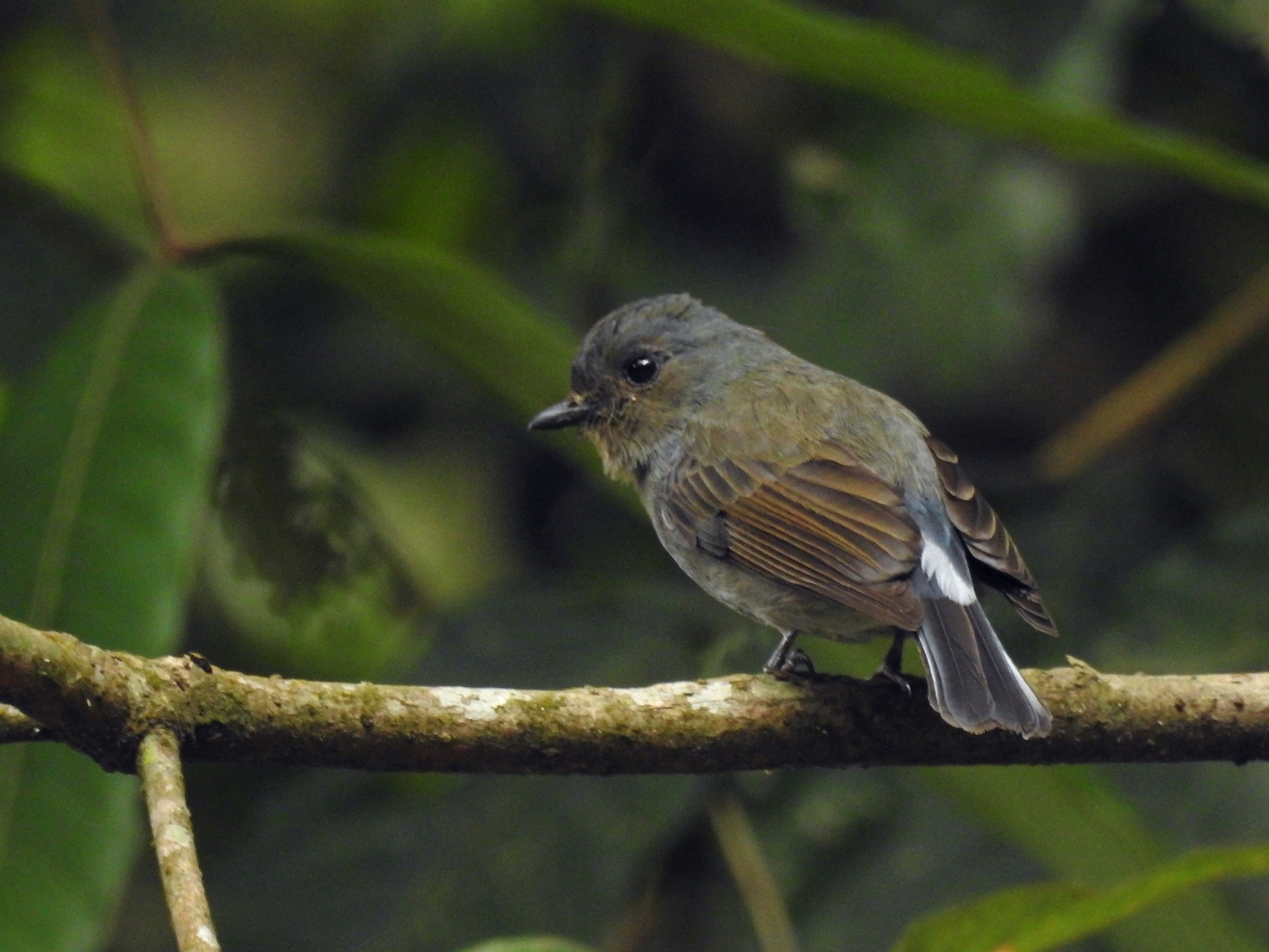 Nilgiri Flycatcher female in the Anamalai hills, India